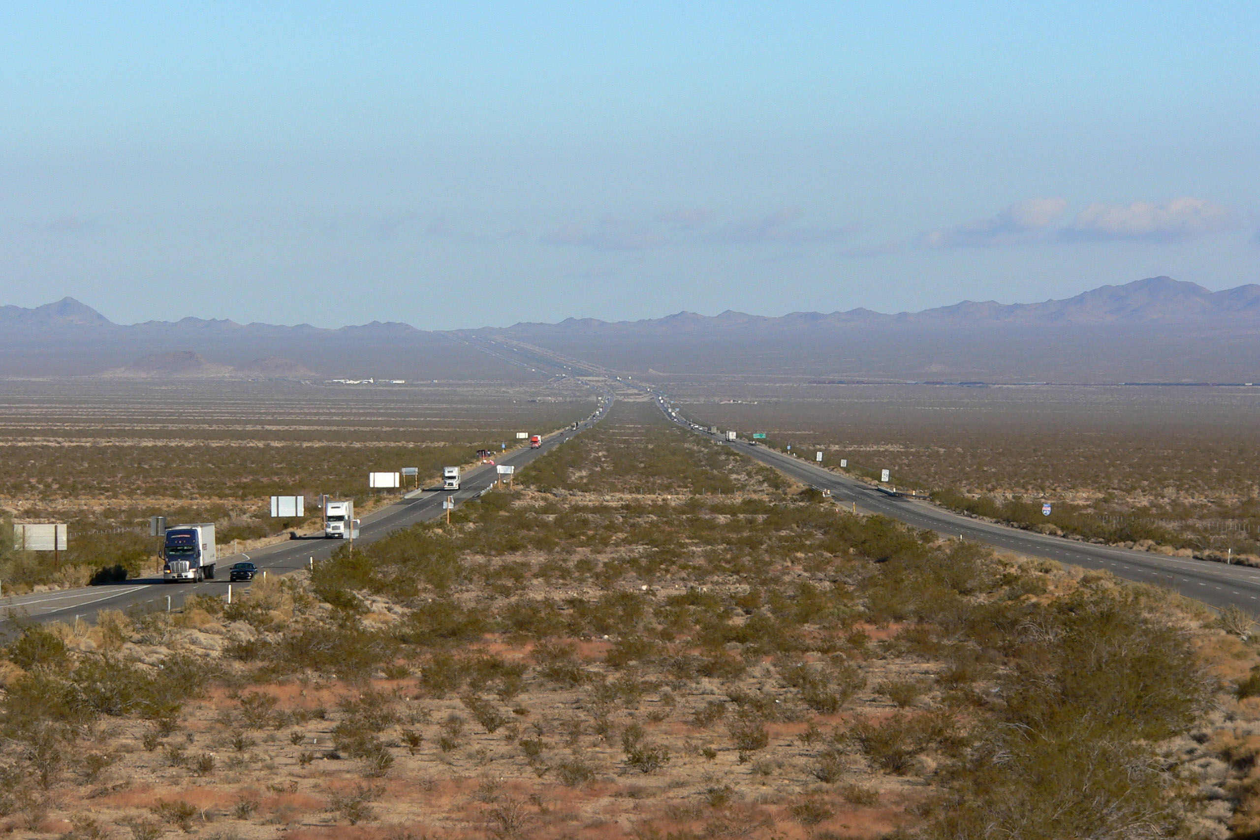 Interstate 40 looking east from Essex Road exit 100, southern California